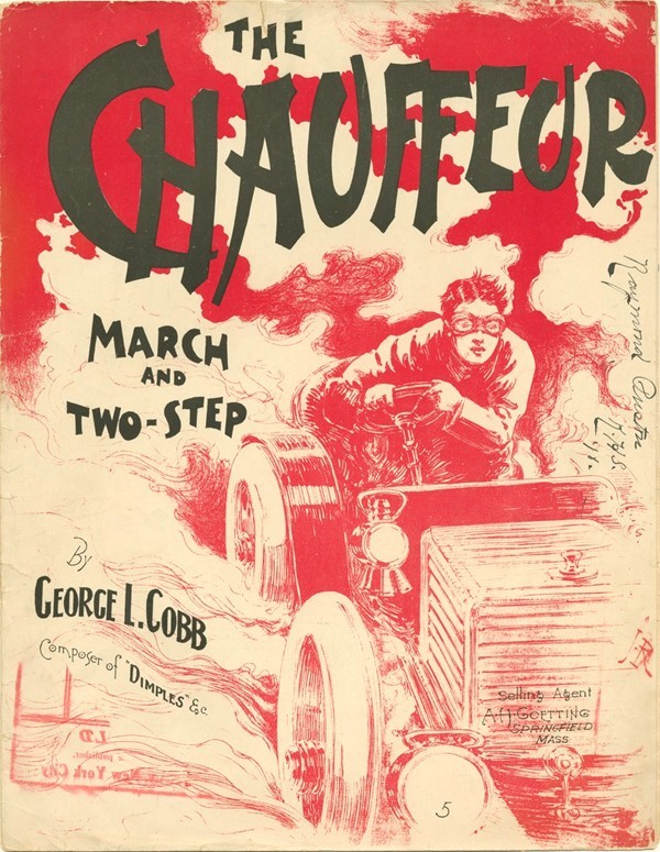 The Chauffeur, 1906